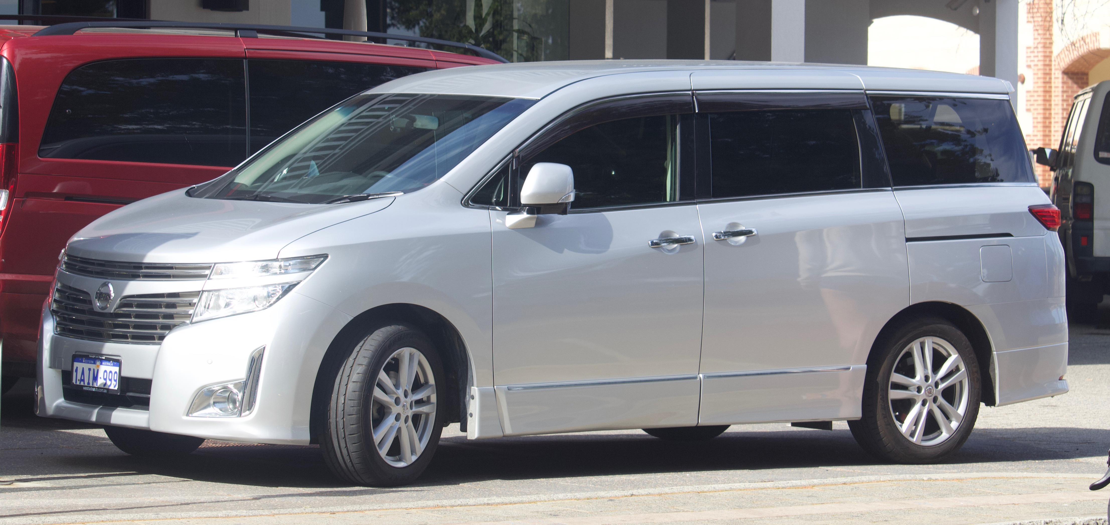 2010-2013 Nissan Elgrand (TE52) Highway Star van. Photographed in Fremantle, Western Australia, Australia. This is a Japanese import, Nissan does not officially sell these in Australia.